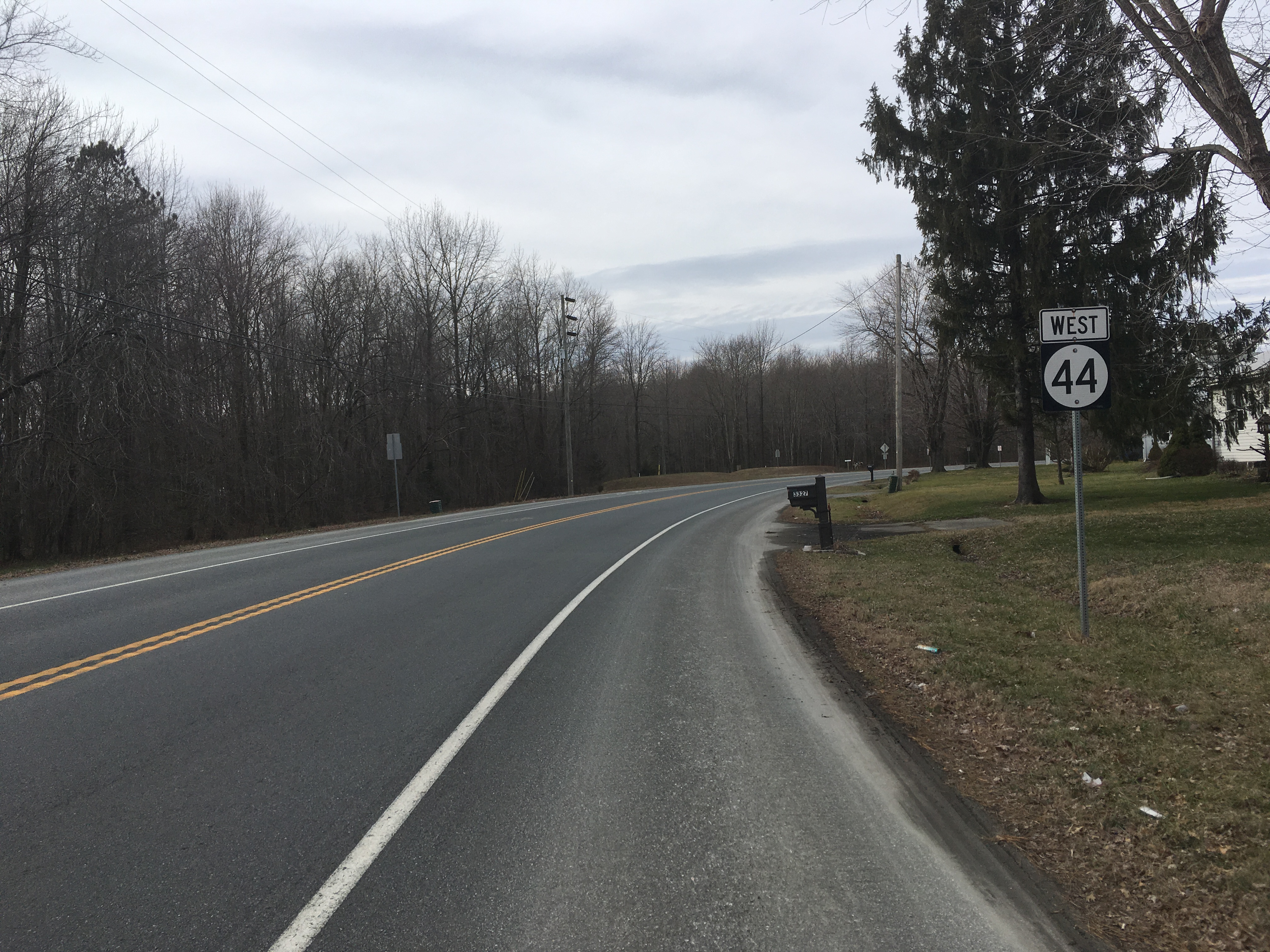 Westbound Delaware Route 44 (Hartly Road) past its eastern terminus at Delaware Route 8 (Halltown Road) in Pearsons Corner, Delaware